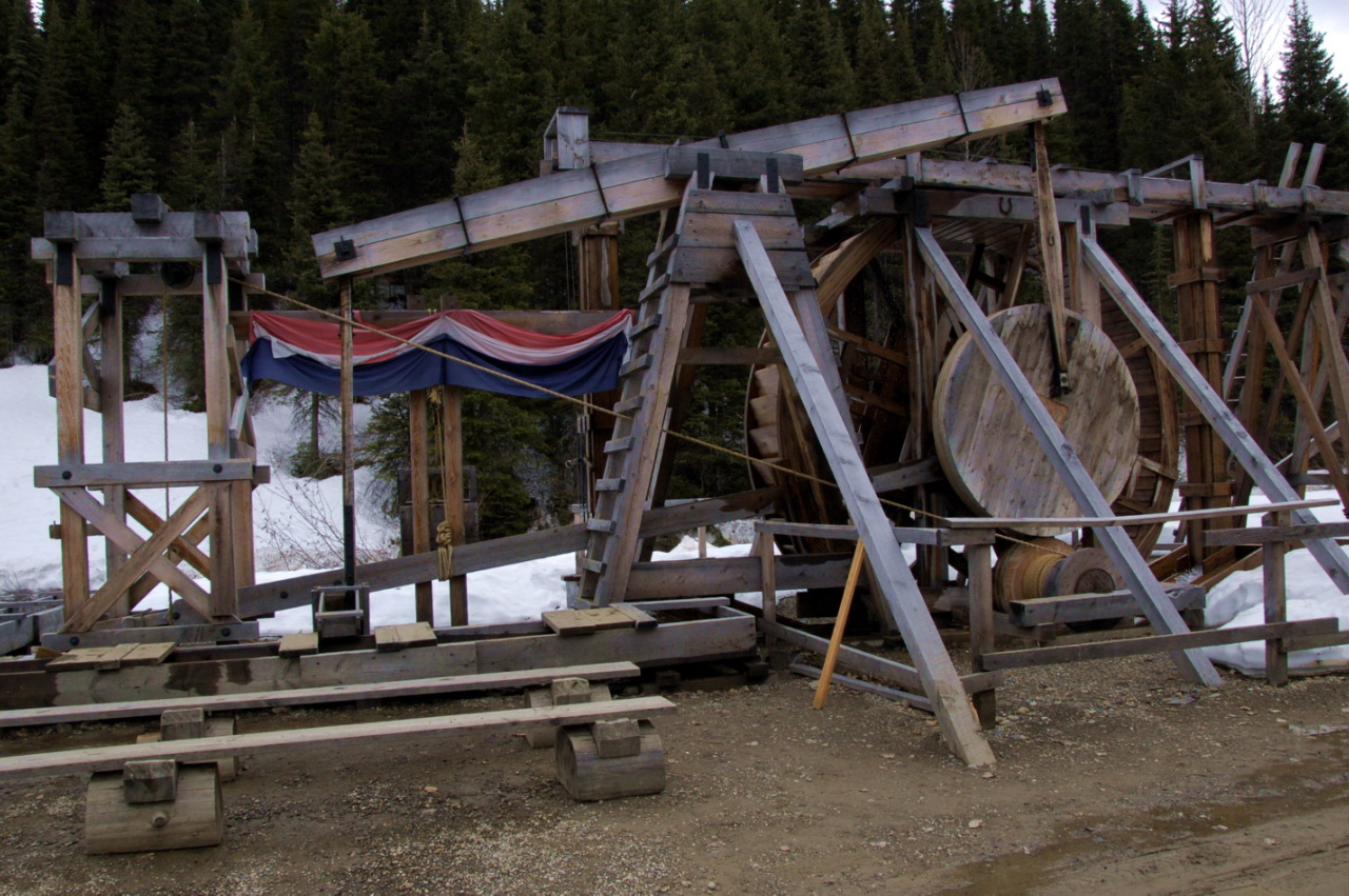 A Cornish water wheel in Quesnel, British Columbia, Canada